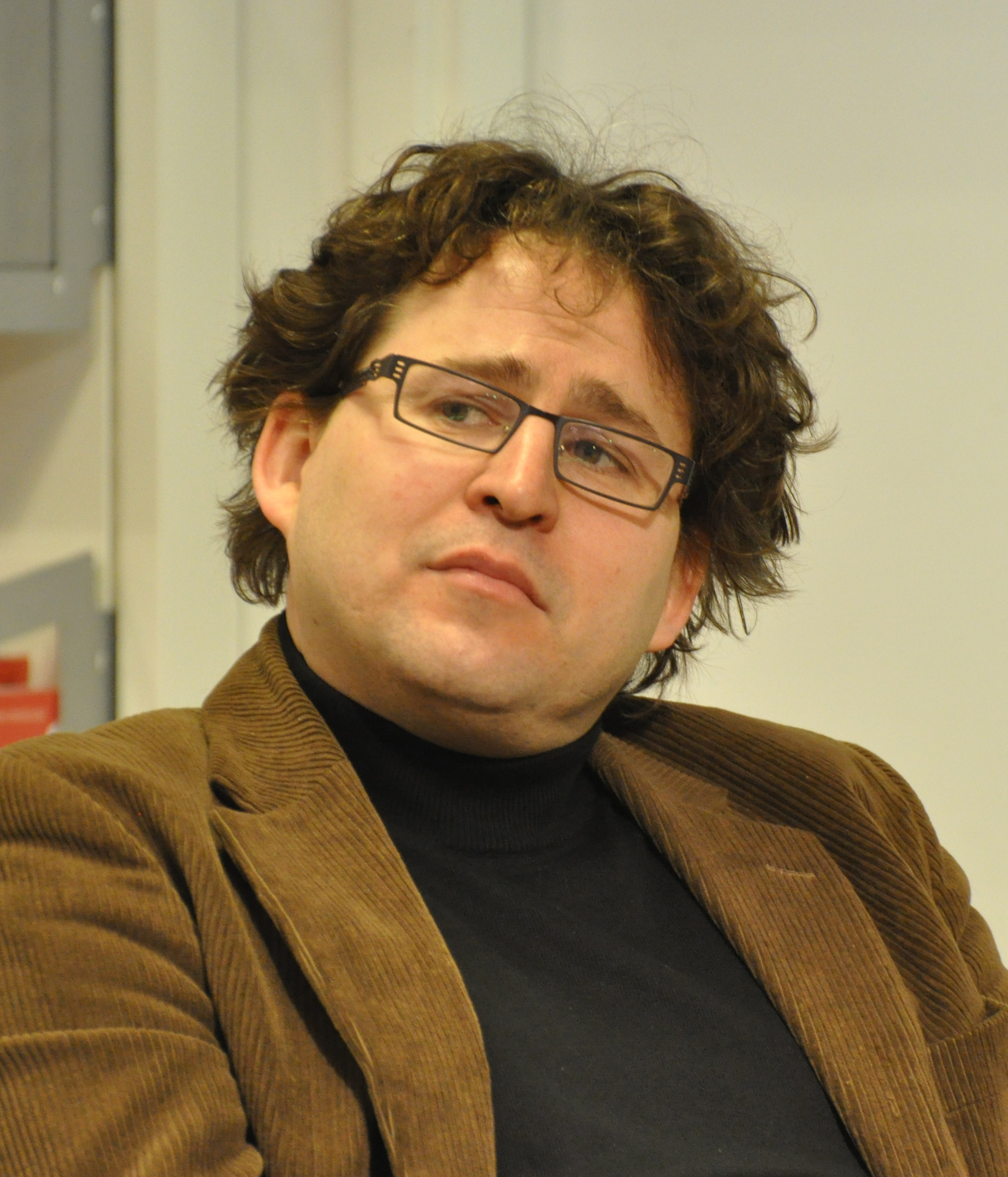 German philosopher Wolfram Eilenberger at the Academic Bookstore in Turku, 2011.